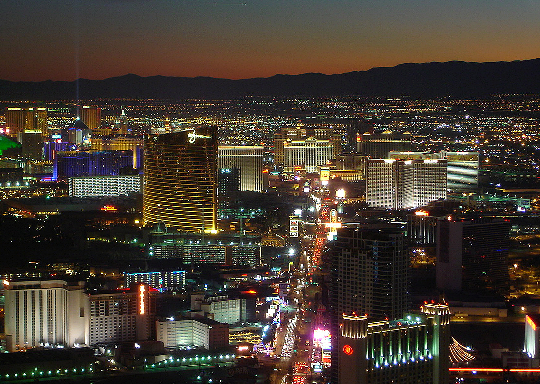 I shot the picture myself from the 108th floor of the Stratosphere Tower. The picture is showing the Las Vegas Strip facing south. Visible landmarks include Wynn, Fashion Show Mall, The Venetian, Treasure Island, Bally's, Paris, Flamingo, The Mirage, Caesars Palace, Bellagio, Monte Carlo, New York-New York, Luxor, THEhotel and Mandalay Bay.